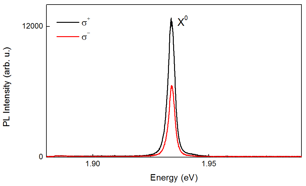 Photoluminescence (PL) of a MoS2 monolayer at 4 K excited by a σ+ polarized laser. The monolayer absorbs the incident light and re-emits it at lower energy. The energy of the peak center correspond to the optical gap.